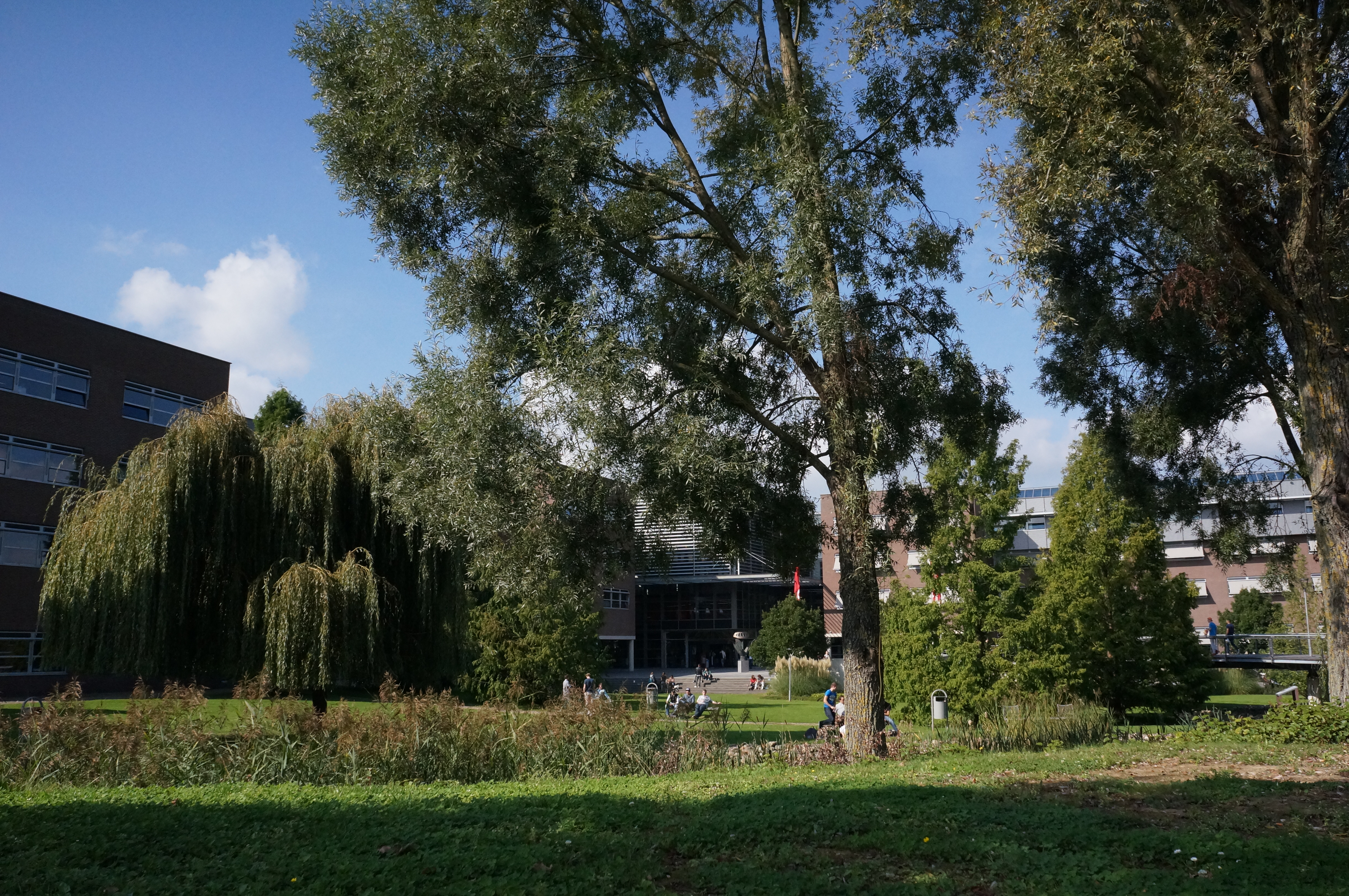 Zuyd University Of Aplied Sciences, departement Heerlen